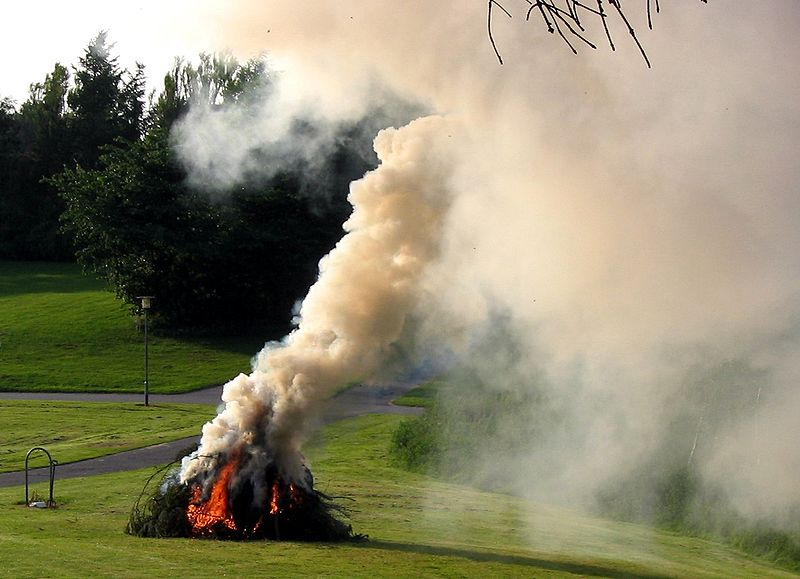 Low Temperature Bonfire in Denmark expelling Brown Carbon Aerosols in the atmosphere